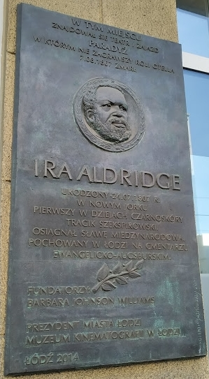 Plaque unveiled around June-July 2014, on the wall of the tenement house at ul. Piotrkowska 175, in the place where he died (at that time the "Paradyz" inn operated here). The plaque was created by the famous Polish sculptor - Marian Konieczny, and the founders were the president of Łódź/Lodz, the Cinematography Museum in Łódź/Lodz and Barbara Johnson-Williams, a researcher of the history of Aldridge. The unveiling of the plaque was also attended by Prof. Krystyna Kujawińska-Courtney from the University of Lodz, author of the book "Ira Aldridge (1807-1867). The History of the First Black Shakespearean Tragic".